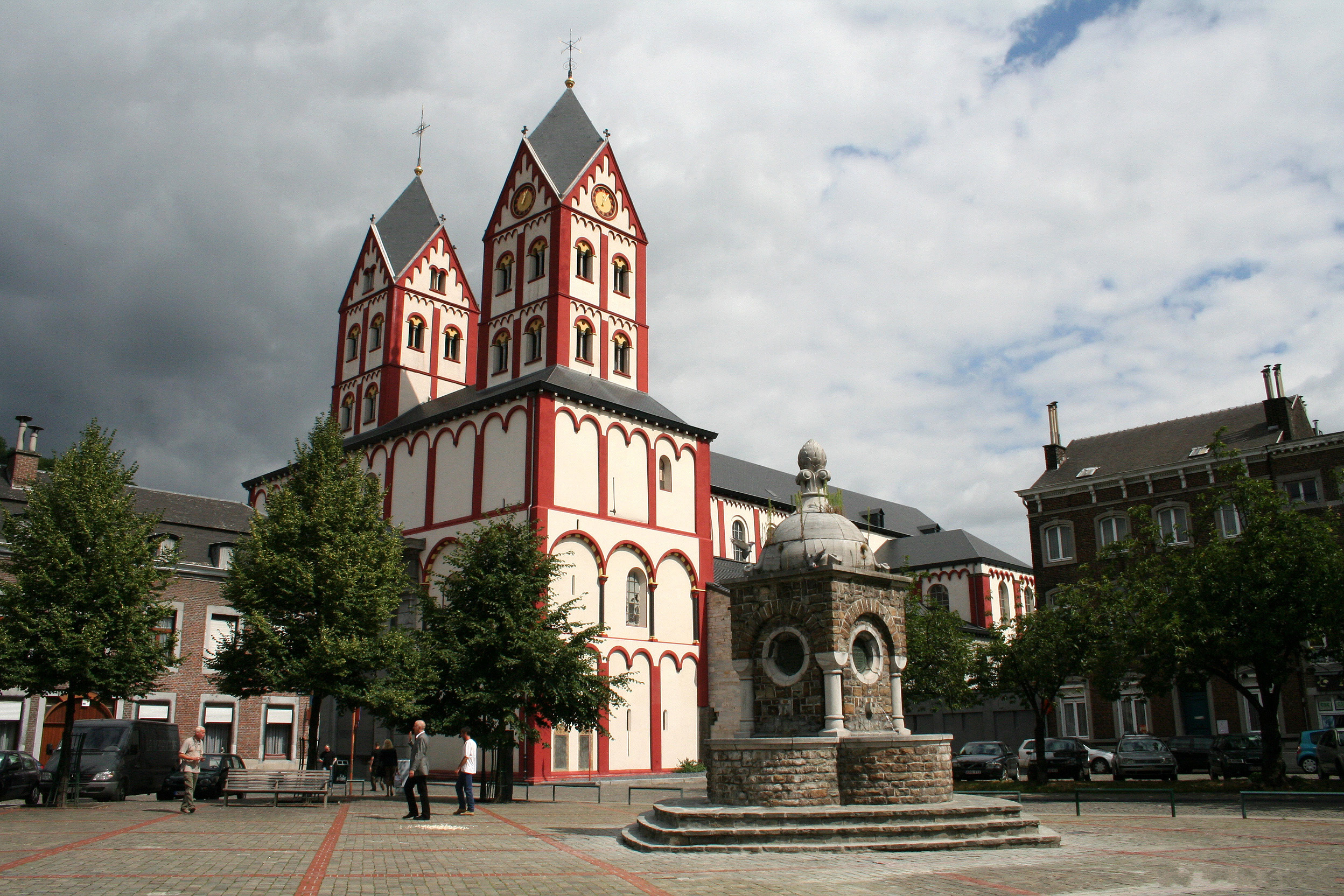 Liège (Belgium), the St. Bartholomew's Collegiate Church (XI-XIIth century).